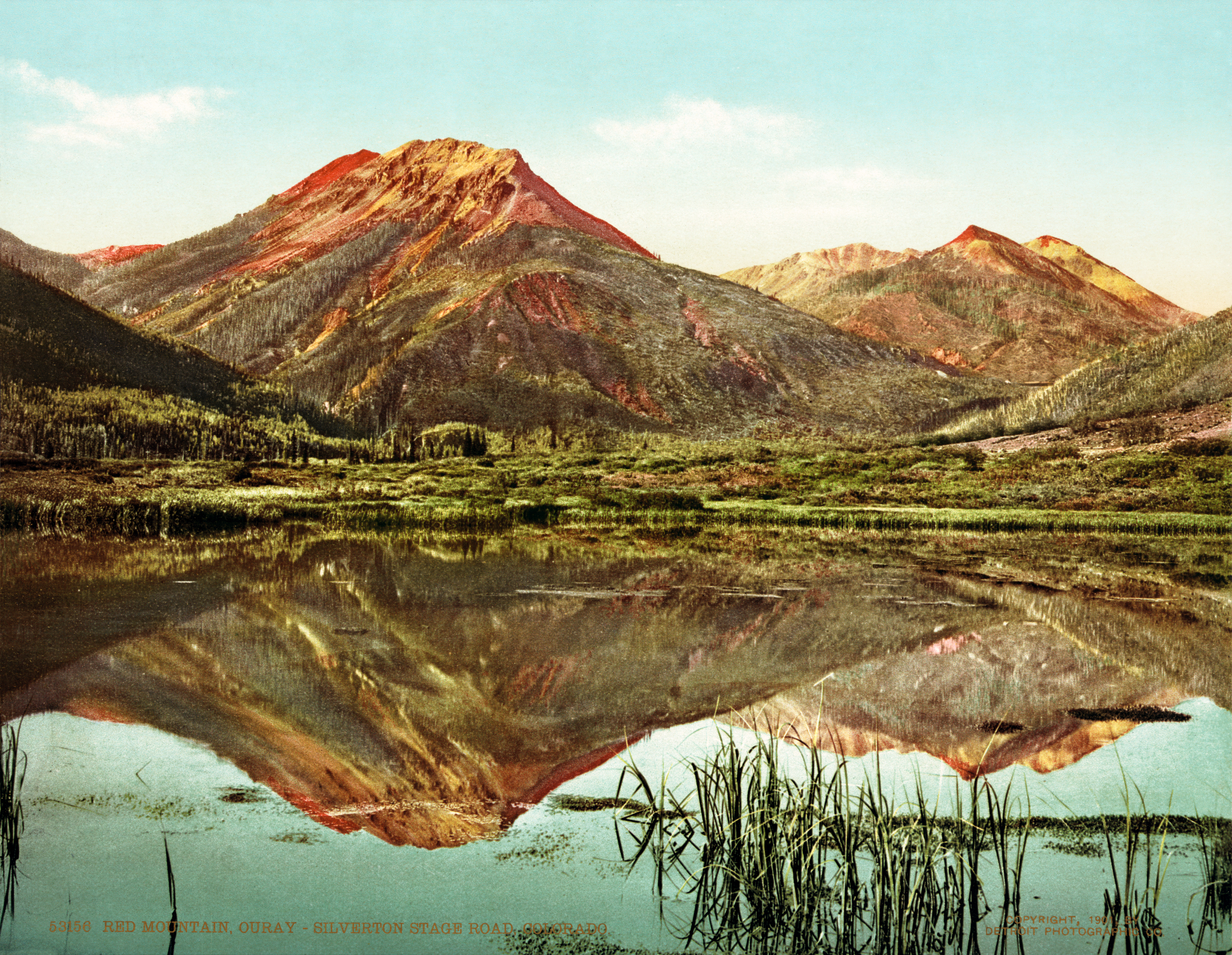 Photochrom print of the Ouray–Silverton stage road, Colorado, USA (now the part of U.S. Route 550 known as the "Million Dollar Highway").